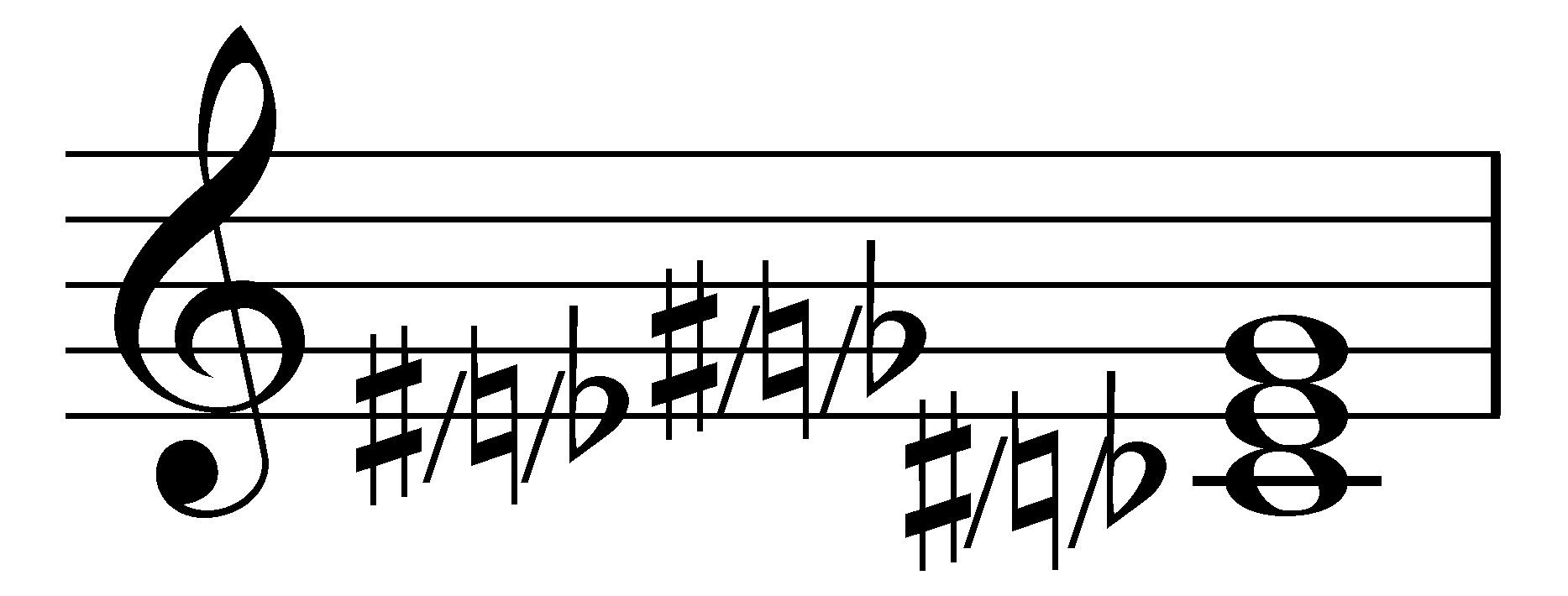 Illustrating the possibilities using alteration on a C triad (three note chord), using accidentals and slashes rather than writing out all 27 possibilities. One note 0,4,7 C major e,4,7 E minor 1,4,7 C# diminished 0,3,7 C minor 0,5,7 Csus 0,4,6 C flat five 0,4,8 C augmented Two notes 0,3,6 C diminished 0,3,8 Ab major 0,5,6 Viennese trichord on C 0,5,8 F minor e,3,7 G augmented e,5,7 G dominant fragment e,4,6 Em9 fragment e,4,8 E major 1,4,6 E9 fragment 1,4,8 C# minor 1,3,7 Eb7 fragment 1,5,7 Italian sixth Three notes e,3,6 B major e,3,8 G# minor e,5,8 F diminished e,5,6 Viennese trichord on B 1,3,6 D#7 fragment 1,3,8 C#9 fragment 1,5,8 C# major 1,5,6 F#7 fragment